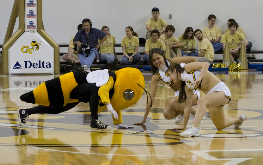 Buzz & Yellow Jacket Cheerleaders playing twister during half time!